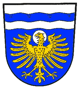 Coat of Arms of Großmehring